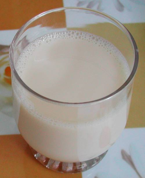 A glas of soy-rice milk ("Soja-Reis Drink Natur" made in Germany by "Alnatura")